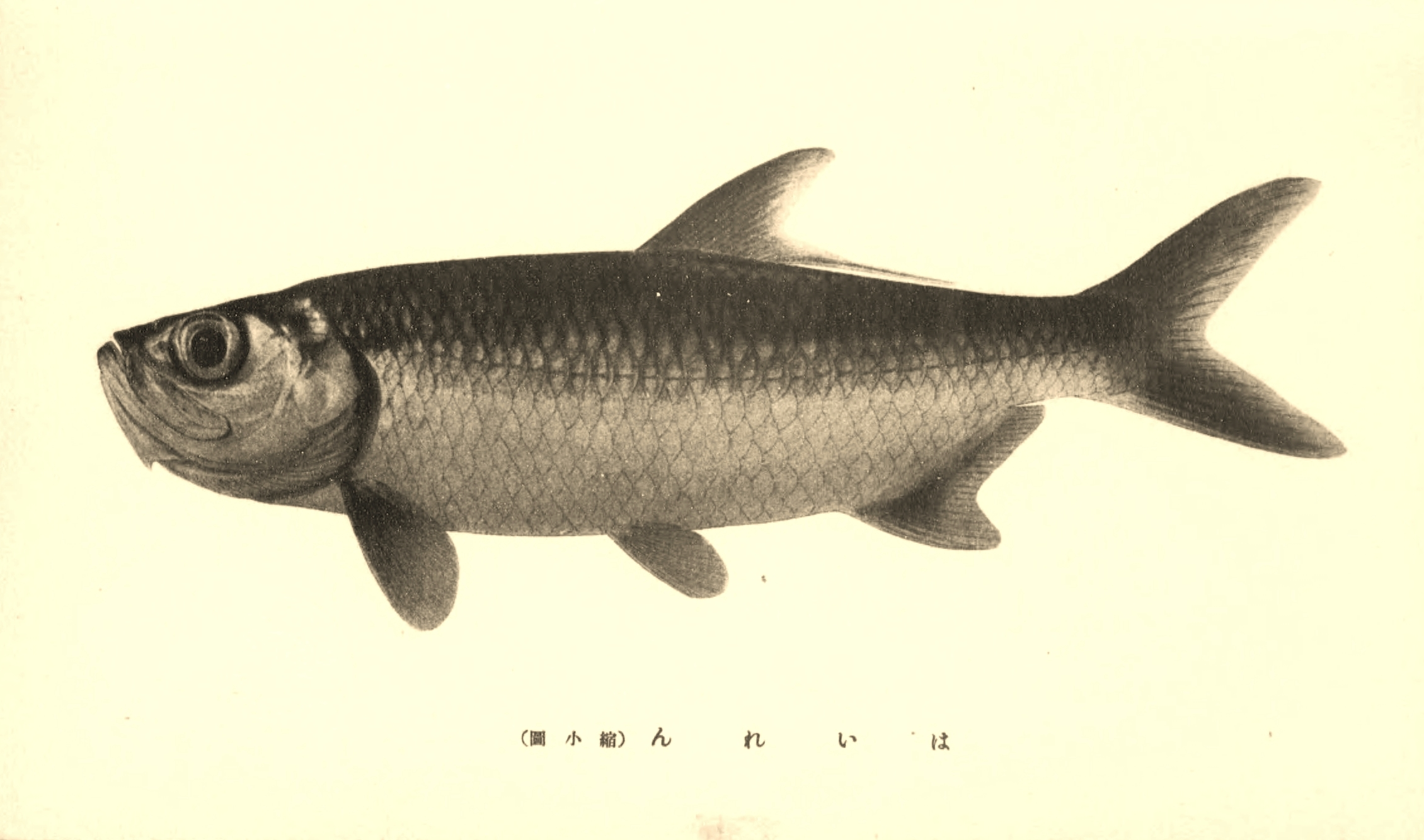 Jono-ike pond research report attached Sketch of Indo-Pacific tarpon